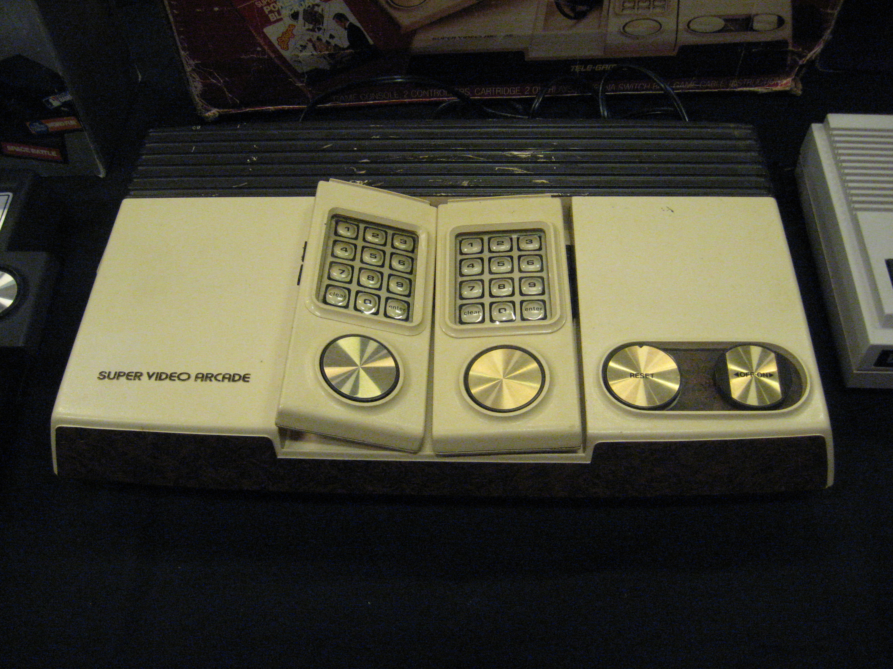 Super Video Arcade (The Intellivison rebranded by Sears)